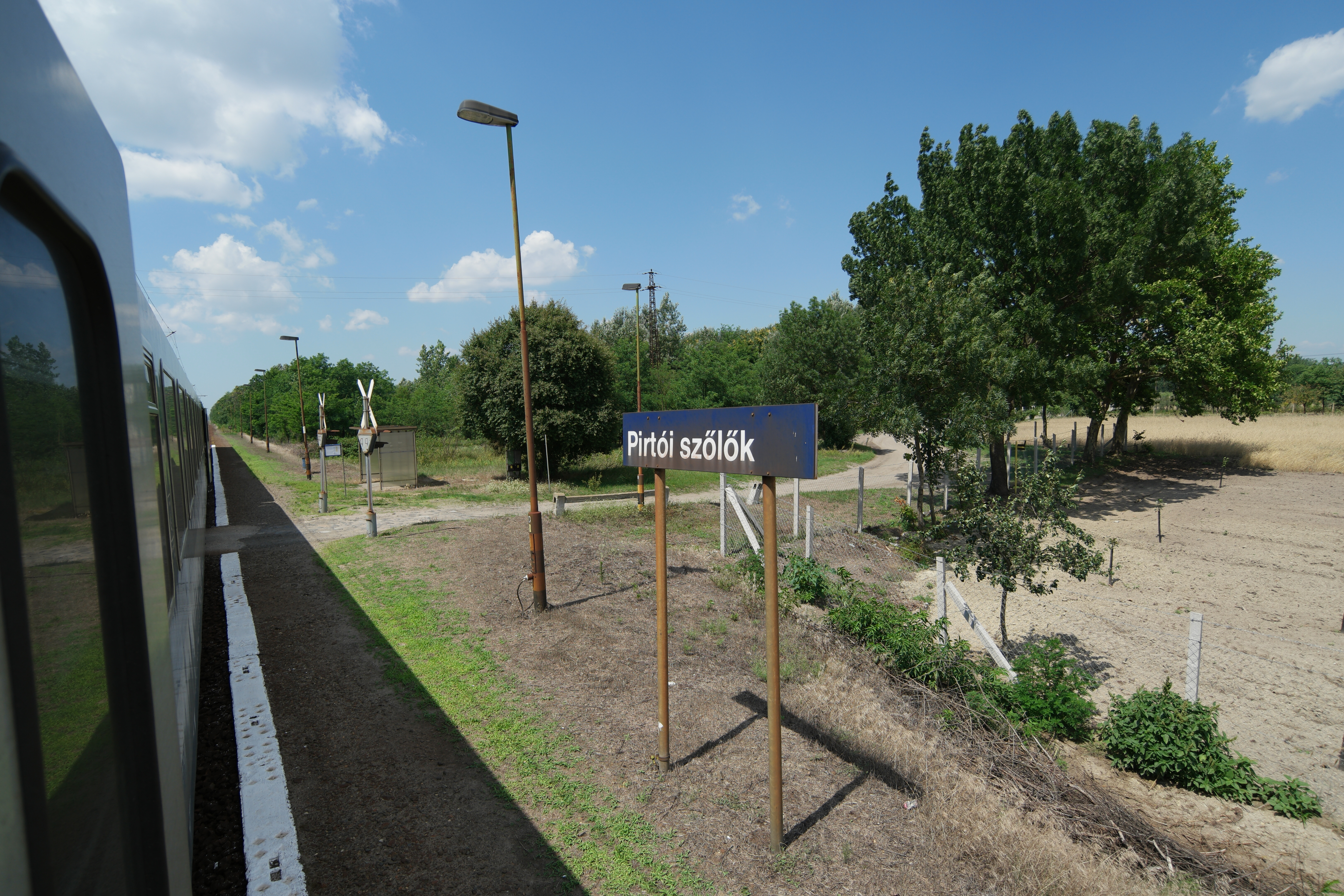 Pirtói Szőlők